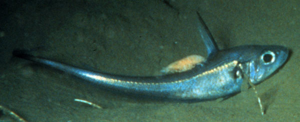 Rattail or grenadier (Macrouridae sp.), from NOAA Photo Library: Image ID: nur00510, National Undersearch Research Program (NURP) Collection Location: Temperate Atlantic Ocean, Hatteras Slope.